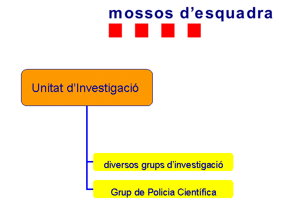 Local Investigation Unit's structure from Police of the Generalitat - Mossos d'Esquadra.